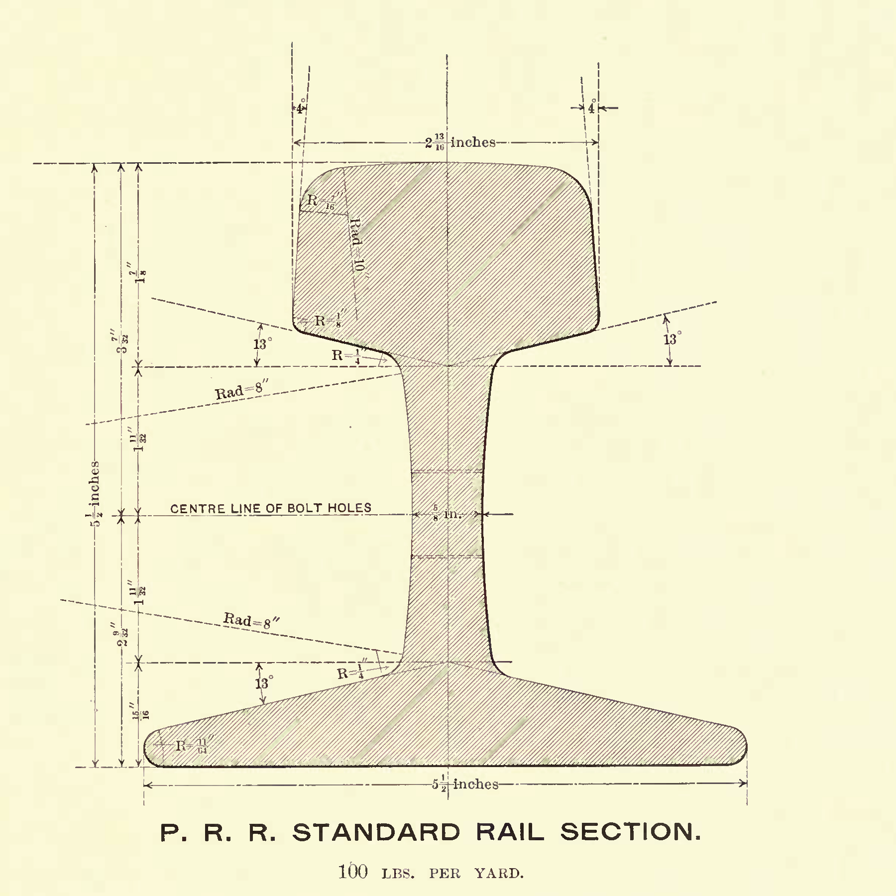 Cross-Section of Standard Rail, one hundred pounds to the yard, as used on the Pennsylvania Railroad in the 1890s.